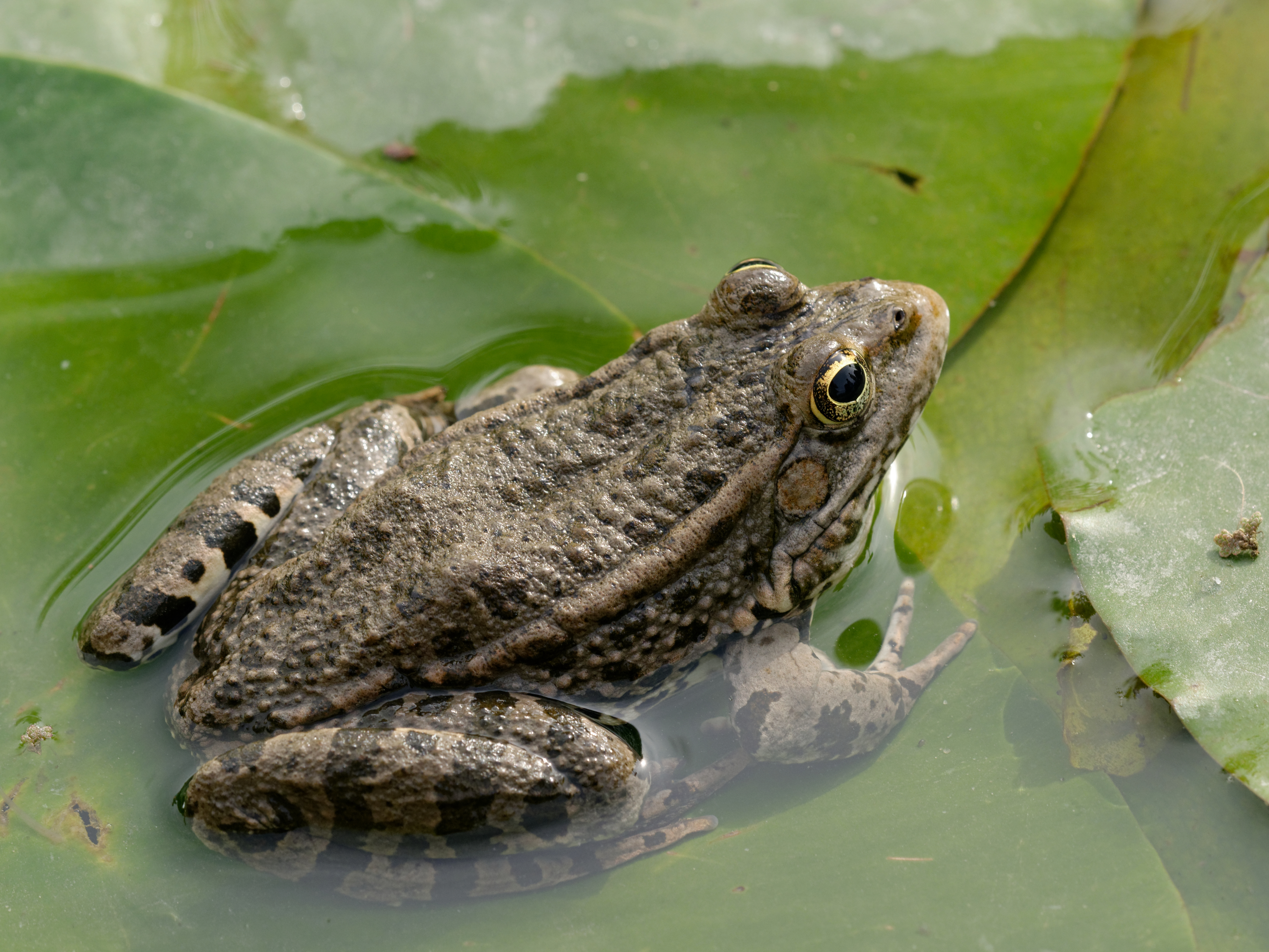 A marsh frog (Pelophylax ridibundus) sitting on a White Water Lily (Nymphaea alba) pad in a pond of the Jardin des Plantes, Paris.